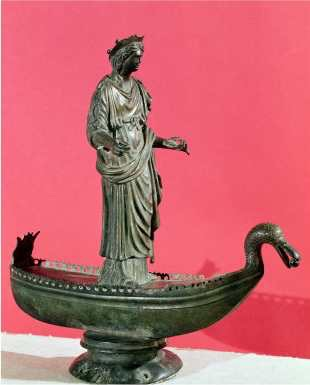 Bronze statue of the Gallo-Roman goddess Sequana from the archaeological museum at dijon, Fr. Statue is approximately one foot tall.